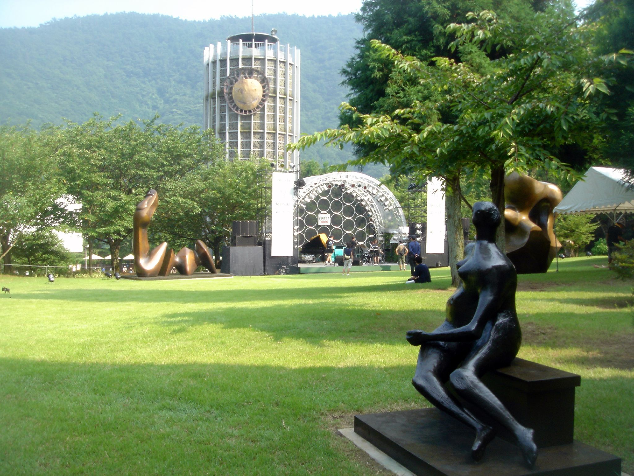 sculptures by Henry Moore in Hakone Open Air Museum/Japan